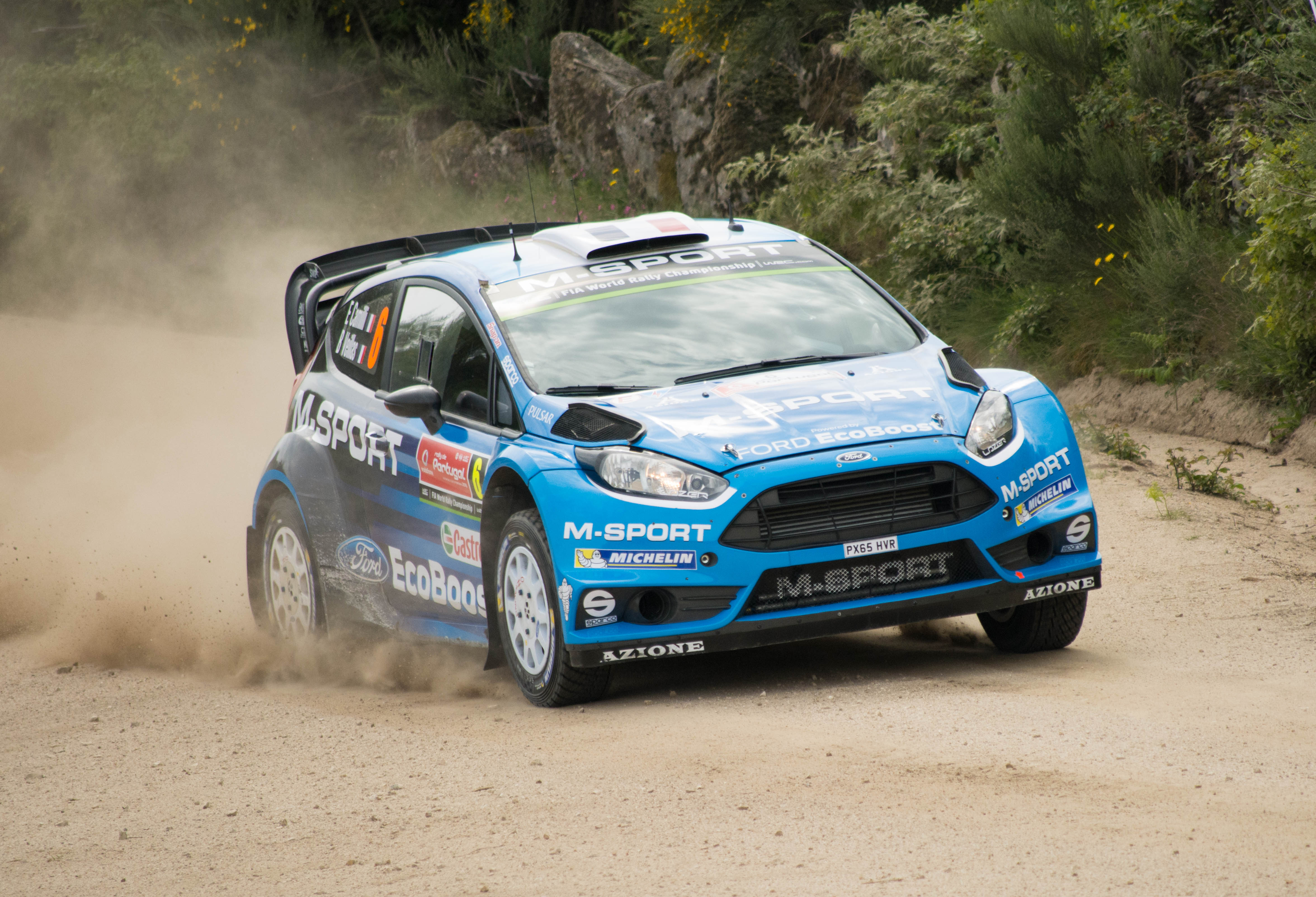 Rally of Portugal 2016. Section of "Baião", on the first pass